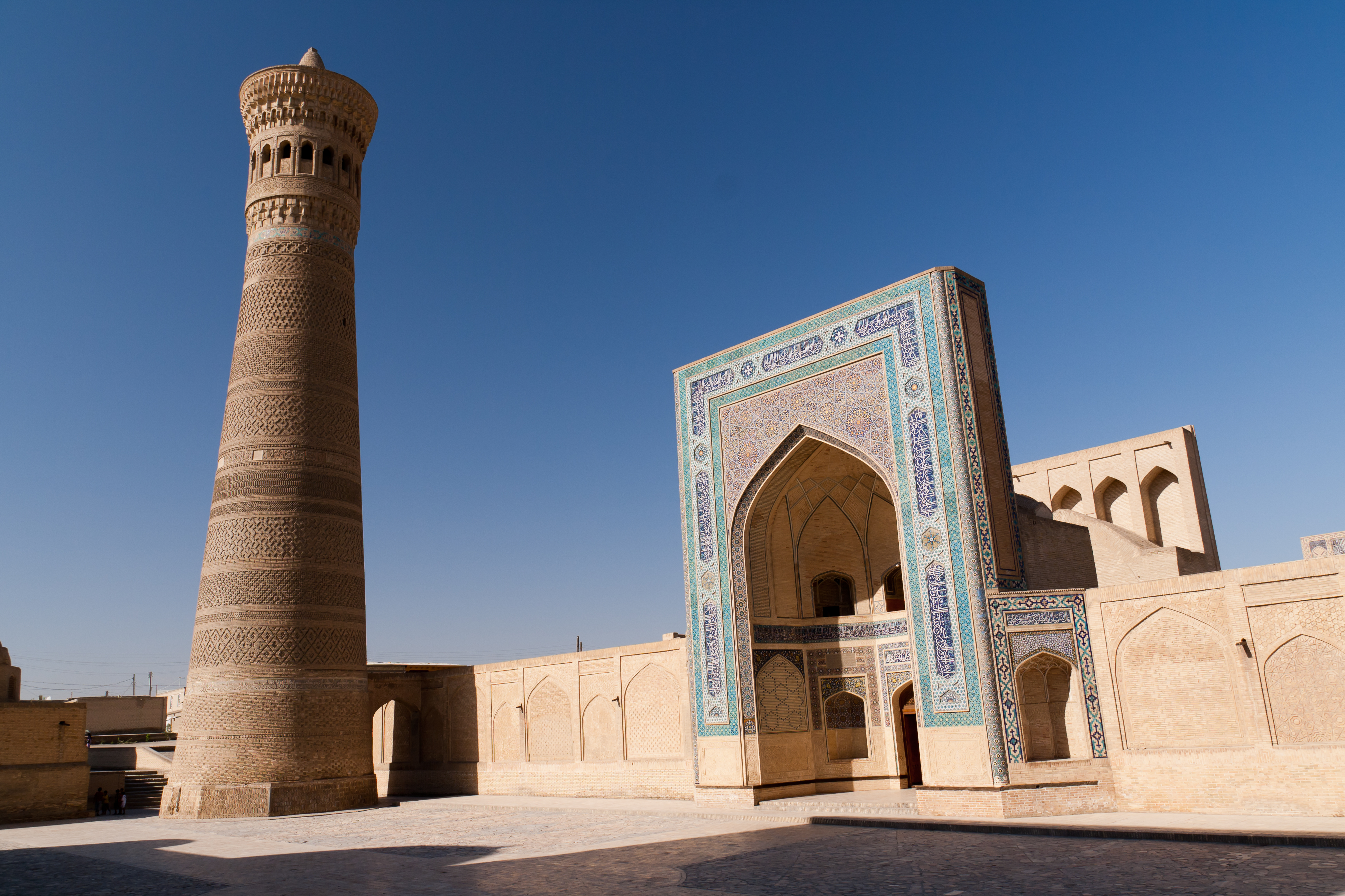 Po-i-Kalyan mosque with Kalyan minaret in Bukhara, Uzbekistan